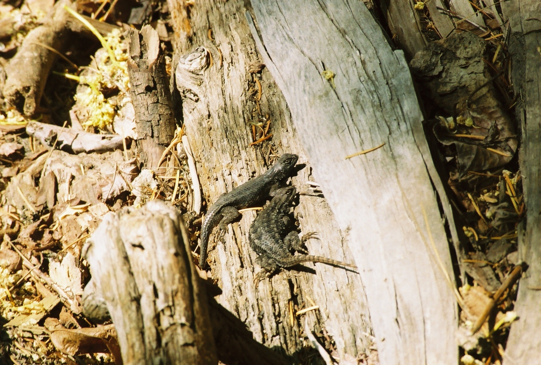 I took this picture myself at Mill Creek Scenic Area Zab 10:21, 28 May 2007 (UTC) While hiking at the Mill Creek Scenic Area in Prospect, we came upon the Mill Creek Giant Boulders. We noticed the female lizard on a log bobbing her head. The male took about 30 seconds to arrive, appearing from the rocks on the creek bank. The male tried to circle the female several times, with 10-15 second pauses in between. She responded by only slight movements, but would not allow the male to enter a mating position with her. After a good 140+ seconds of rejection, the male departed into the rocks from which he came. Zab 12:09, 28 May 2007 (UTC) From the location, this would be Sceloporus occidentalis subsp. occidentalis Baird and Girard, 1852.[1] Walter Siegmund (talk) 06:22, 12 June 2007 (UTC)